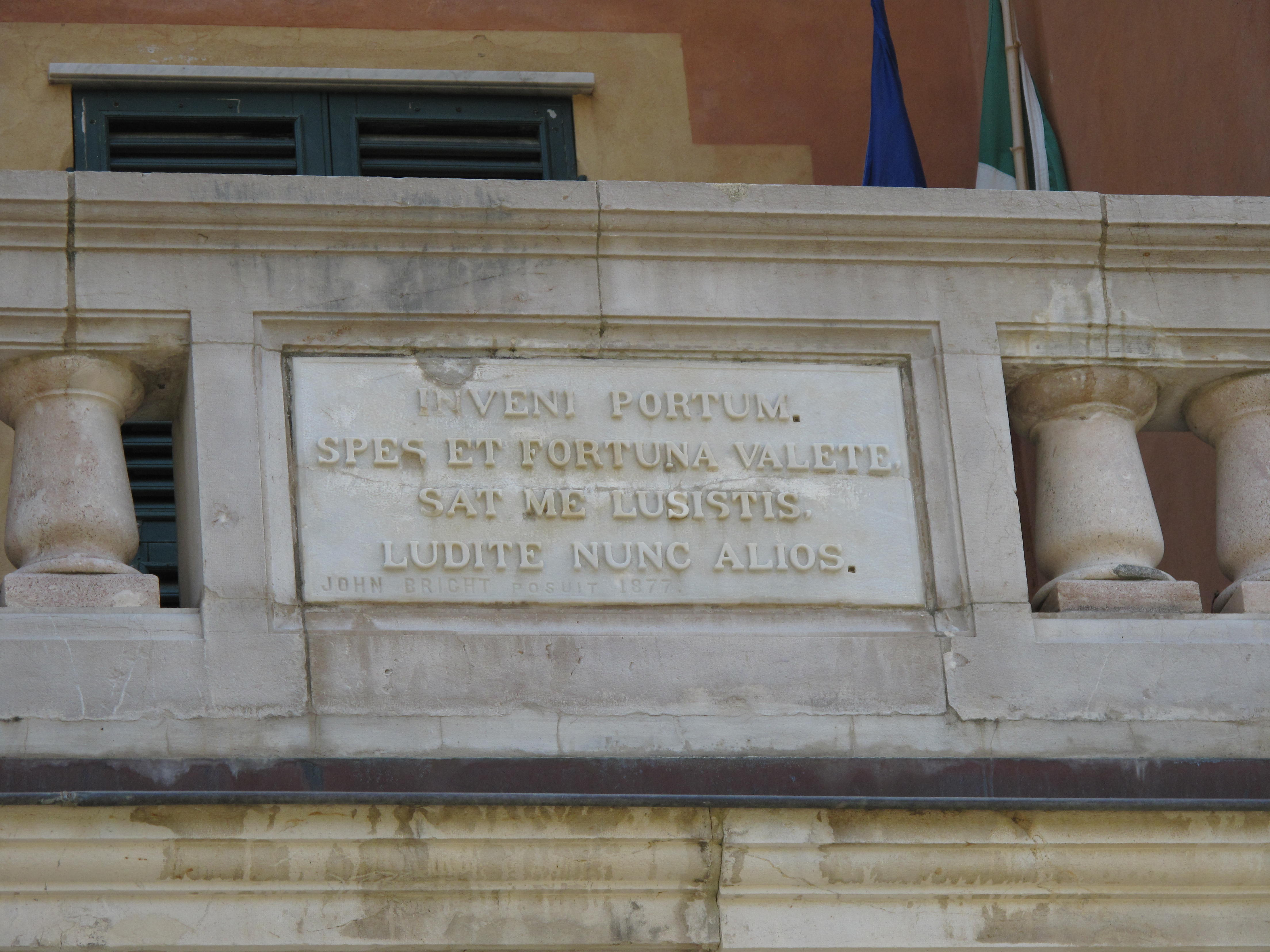 Latin inscription on a wall of the villa Orengo in the gardens of the villa Hanbury (Ventimiglia, Italy). The translation is "I found a harbour. Hope and luck, farewell. Enough you deluded me. Delude now others!"